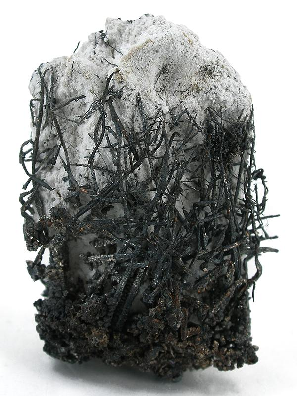 Silver Locality: Balcoll Mine, Falset, Priorat, Tarragona, Catalonia, Spain (Locality at ) Size: miniature, 4.5 x 3.2 x 2.5 cm SILVER Like vines growing up and enmeshing the massive, white calcite, are spinel twinned silver crystals to 1.5 cm in length. Of all the silver specimens in this lot, this piece has the longest spinel twins. Most of the crystals are covered with matte black micro-crystals of acanthite, which gives color contrast. This is a very aesthetic, lively looking piece that seems to my eye unusually aesthetic for this find, and very reminiscent of old 1960s-1970s Batopilas material from Mexico. A superb miniature from any locale, as well.